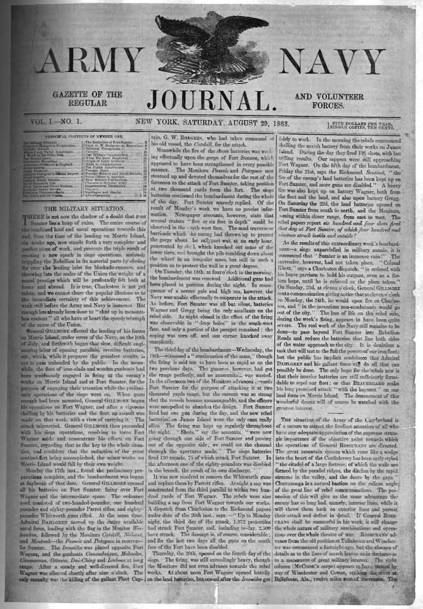 This is an image of the front page of the inaugural issue of the Army and Navy Journal. It was scanned around 2010 by the History Office of the U.S. Army's CECOM command.